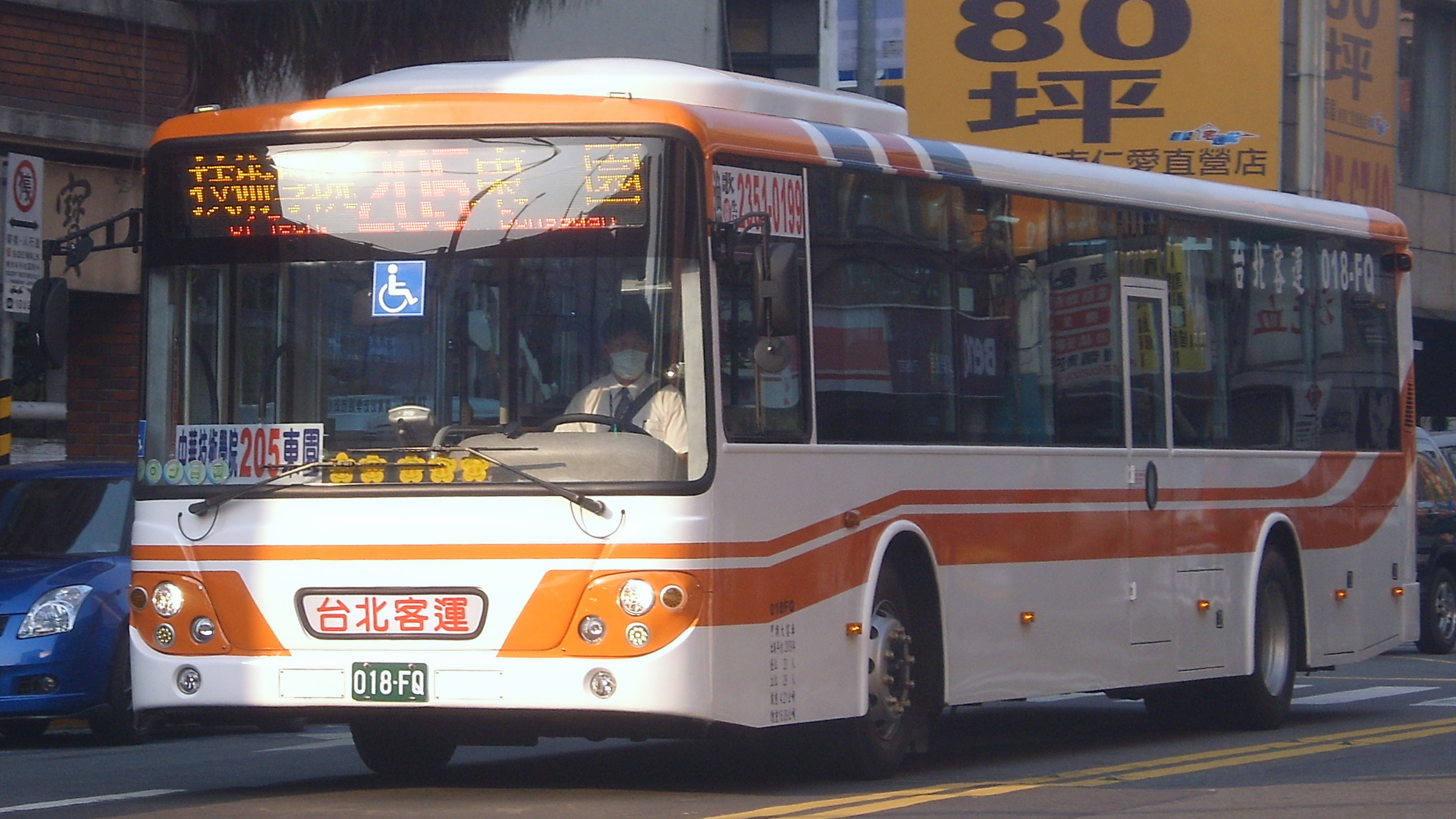 Daewoo BS120CN with Doosan DL08S.